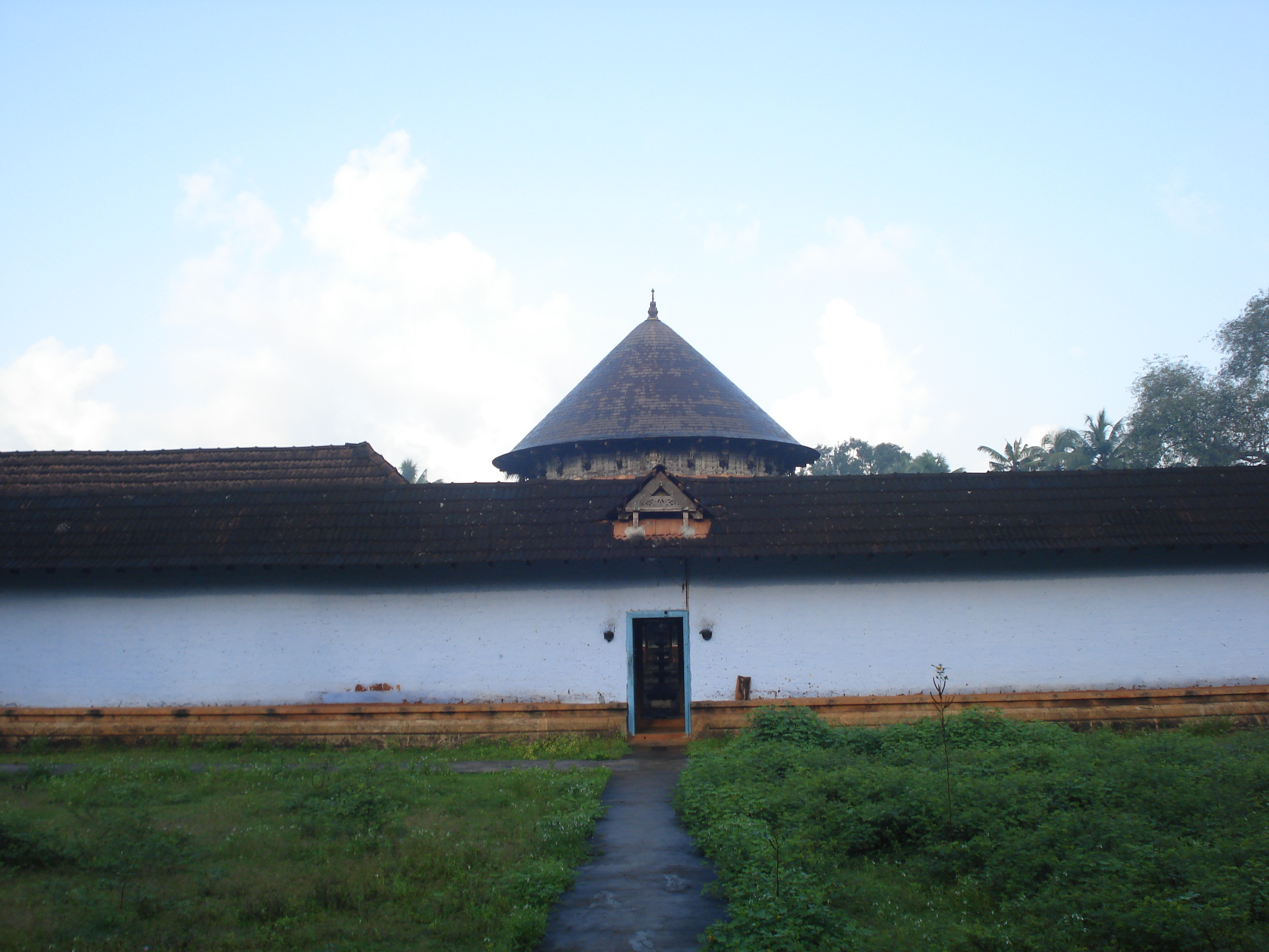 Avittathur Siva Temple